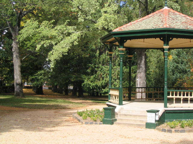 Bandstand in Orange's Cook Park. (C) User:(WT-shared) Hypatia, April 2006.